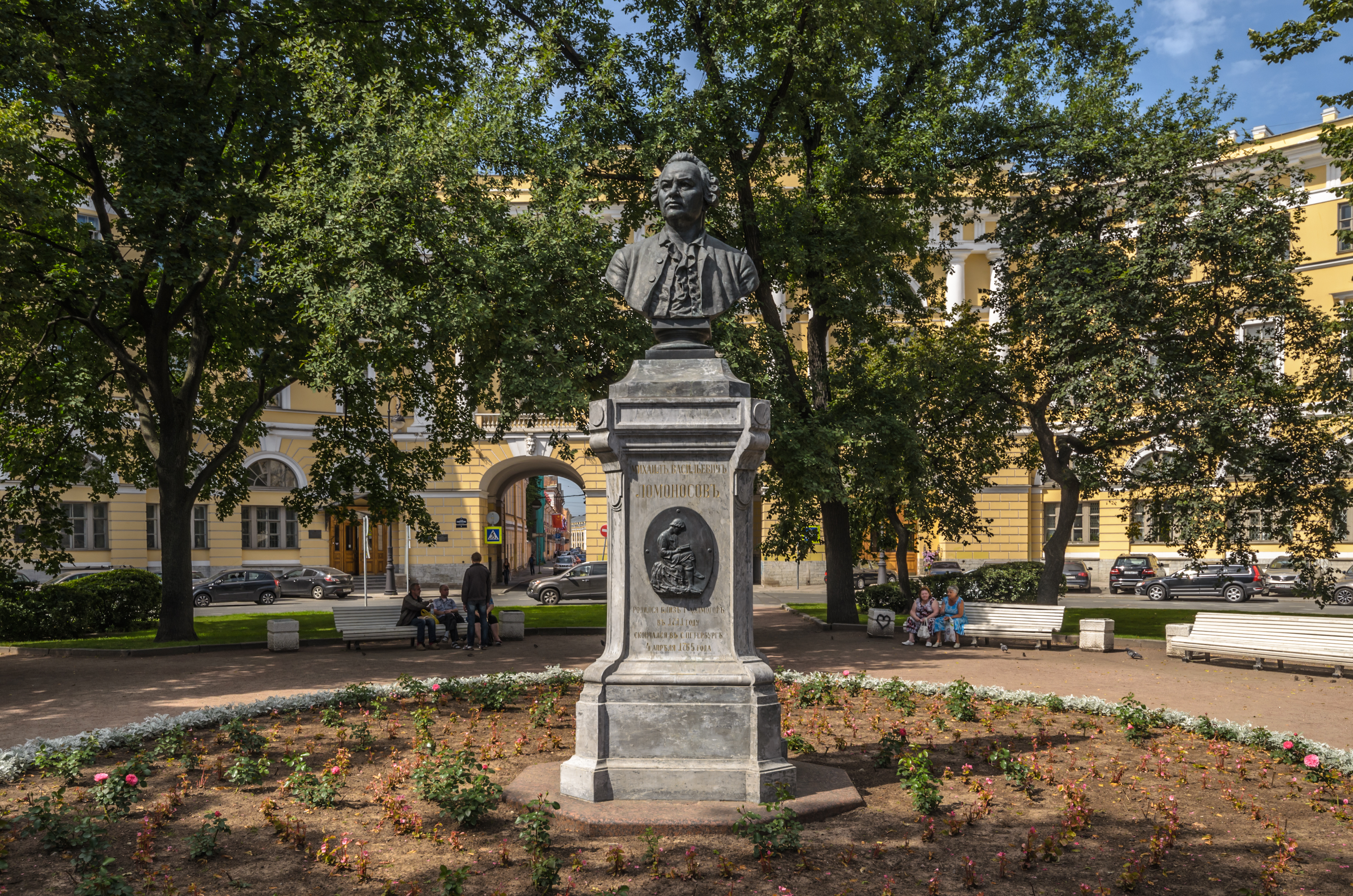 Bust of Mikhail Lomonosov in Saint Petersburg